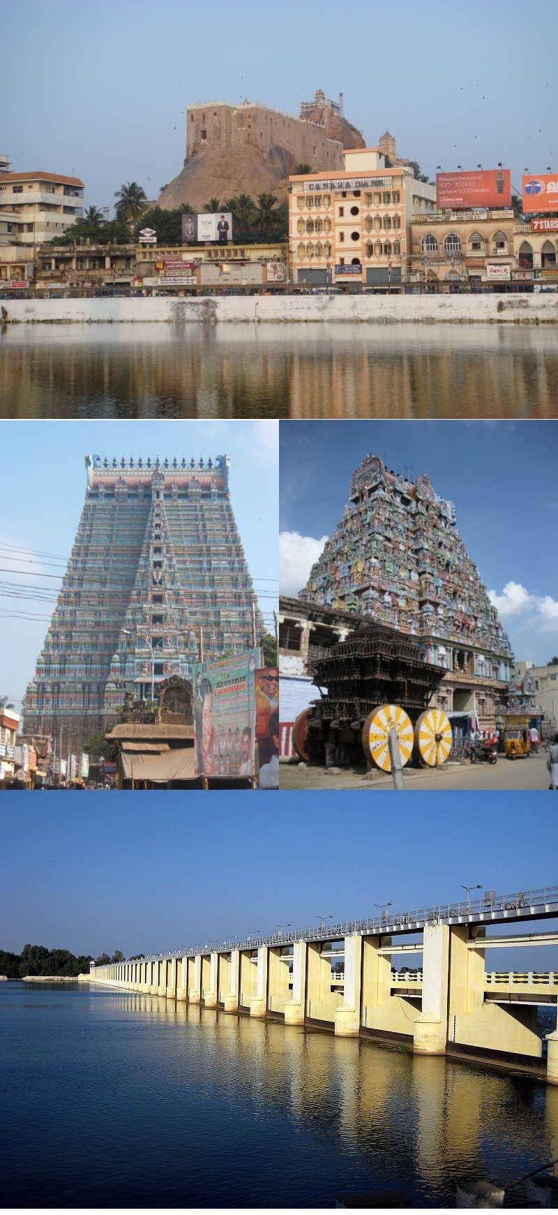 A montage of photographs of Tiruchirappalli. Images included are File:Rock Fort Temple.jpg, File:Srirangam main gopuram.JPG, File:Tiruvannaikkaval4.jpg, File:Trichi02.JPG